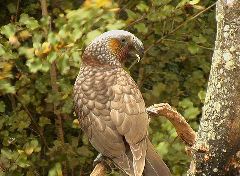 Kaka (Nestor meridionalis) on Stewart Island, New Zealand. Photograph taken on 26 November 2002.